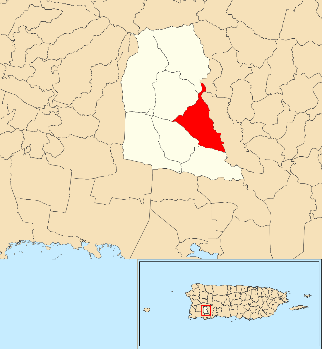 Torre, Sabana Grande, Puerto Rico locator map